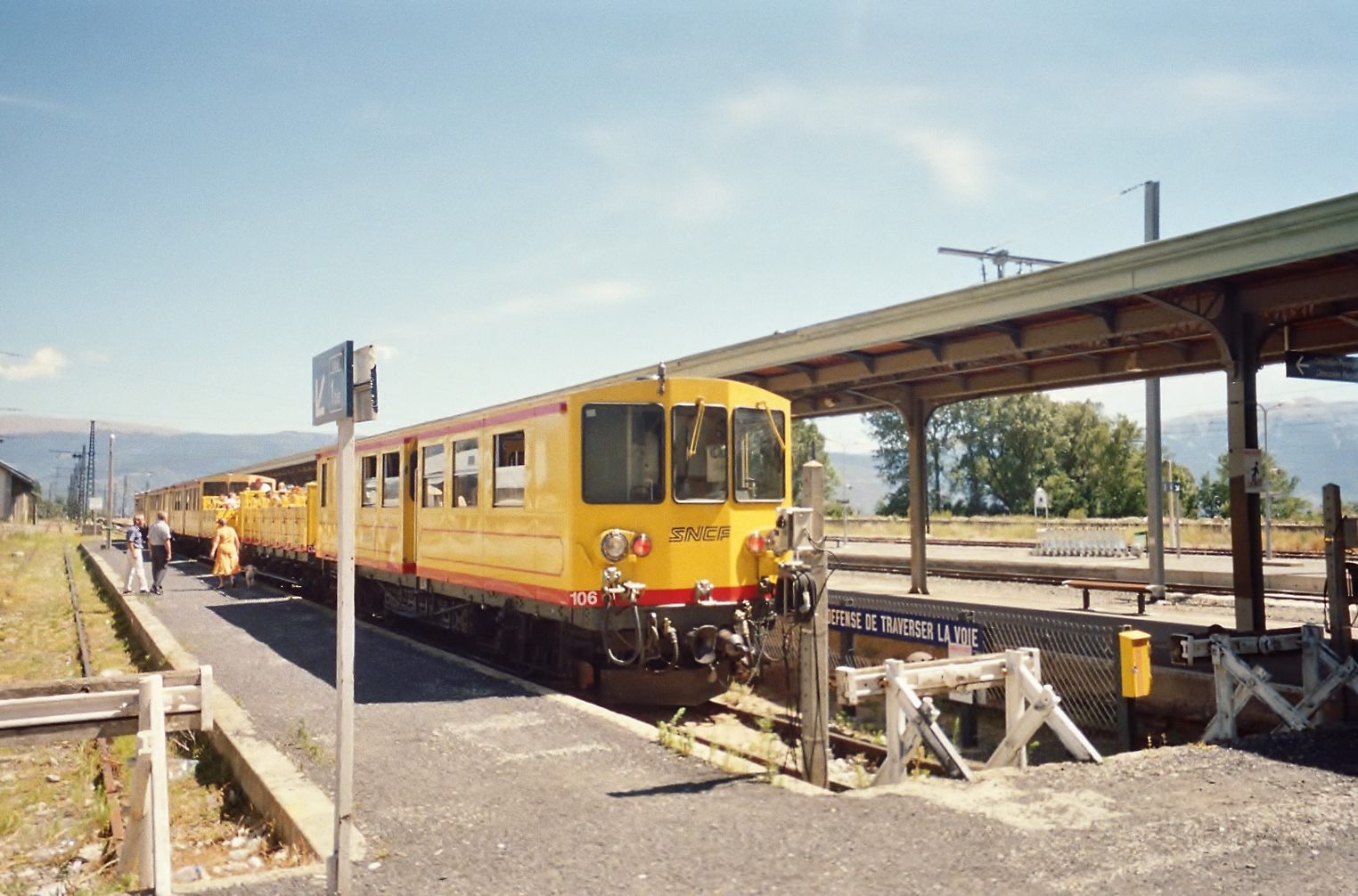 The regional Yellow Train here stopped at Latour-de-Carol - Enveitg railway station, in the Pyrénées-Orientales (French Eastern Pyrenees).